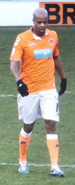 Ludovic Sylvestre. Image cropped from original at flickr.